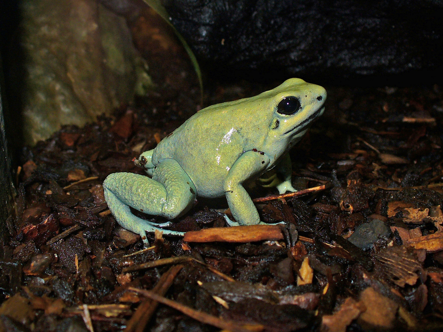 Phyllobates terribilis, Dendrobatidae, Golden Poison Frog, Golden Dart Frog; Staatliches Museum für Naturkunde Karlsruhe, Germany.